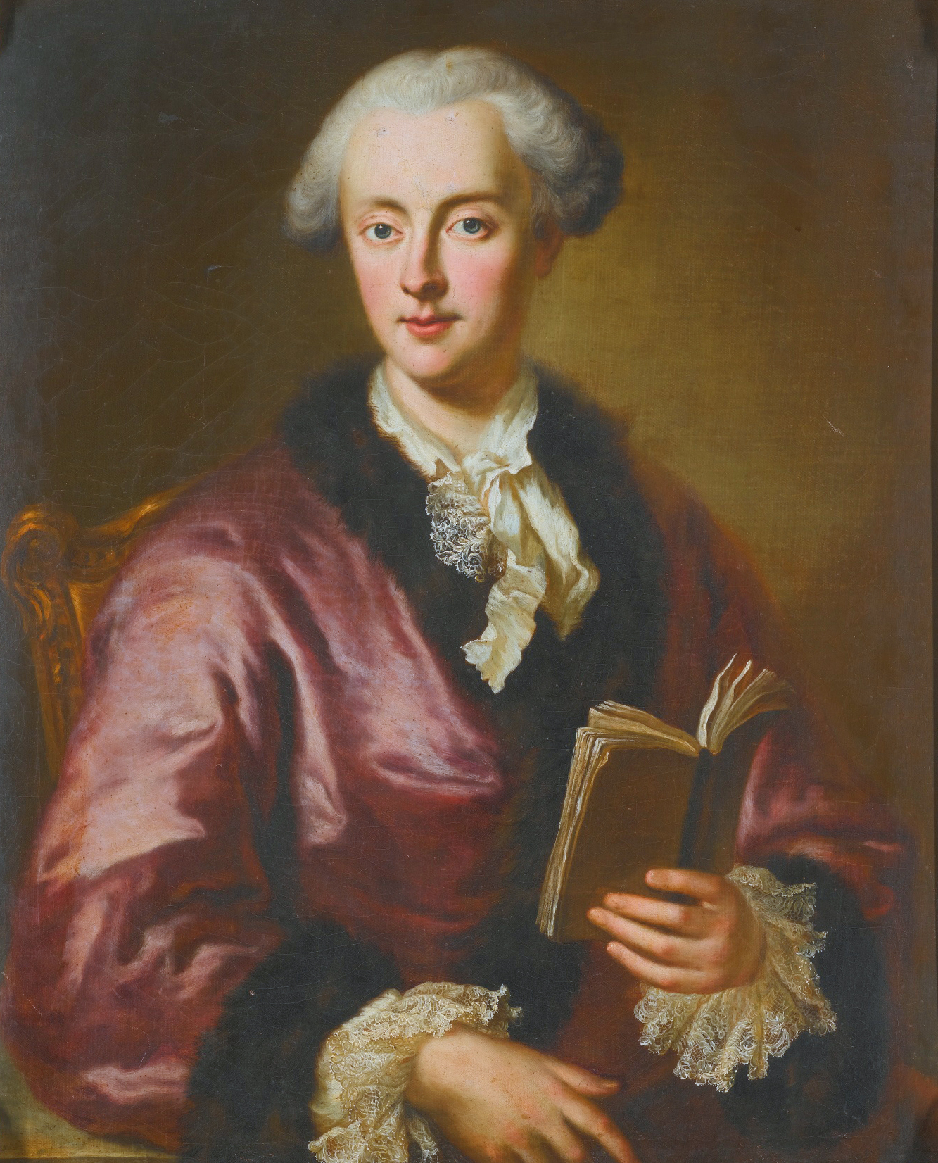 Graf Gotthelf Adolf Hoym (1731-1783) oil on canvas 85.5 x 68.1 cm